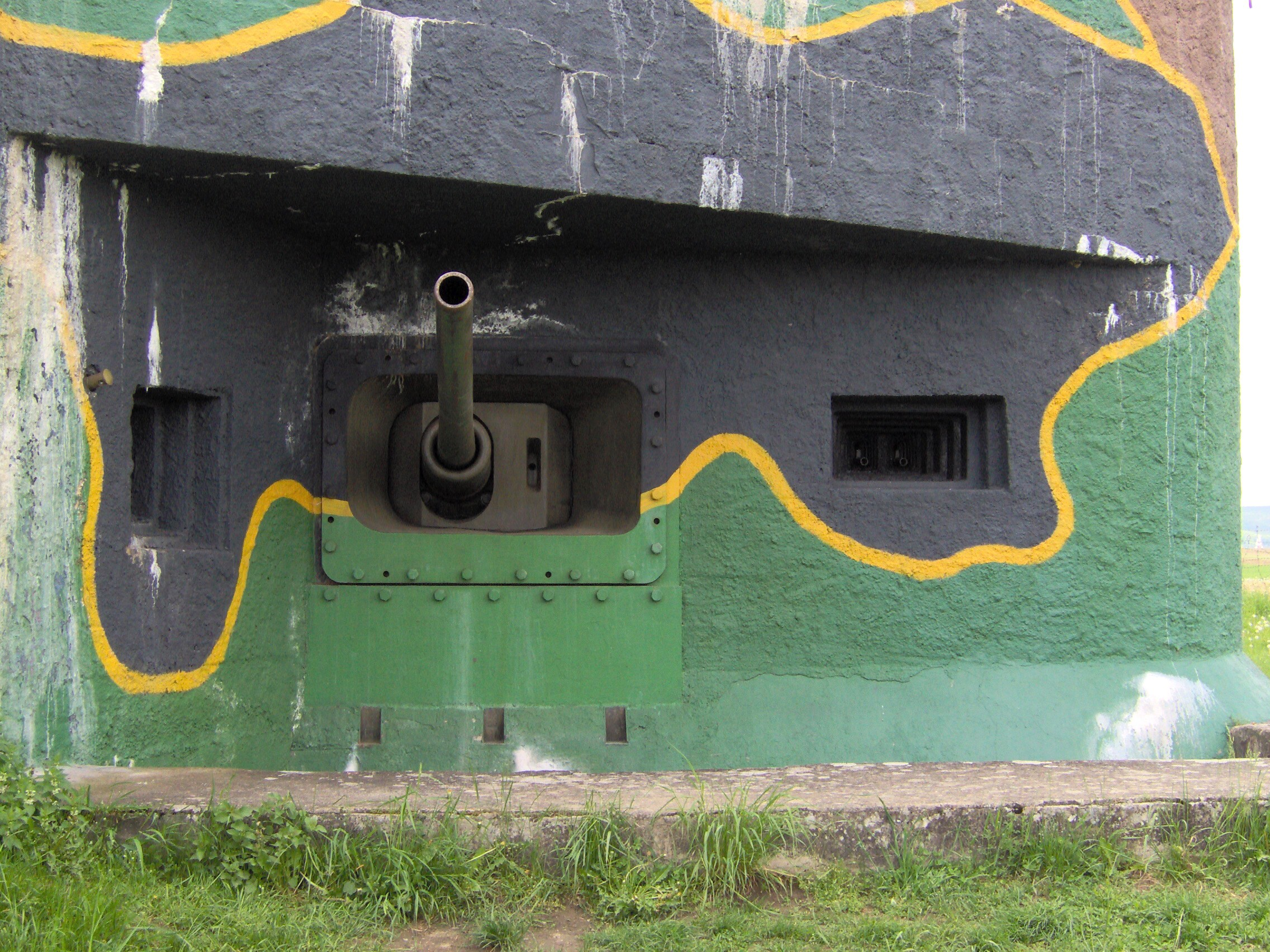 MJ-S 3 Zahrada infantry casemate, Znojmo District, Czech Republic